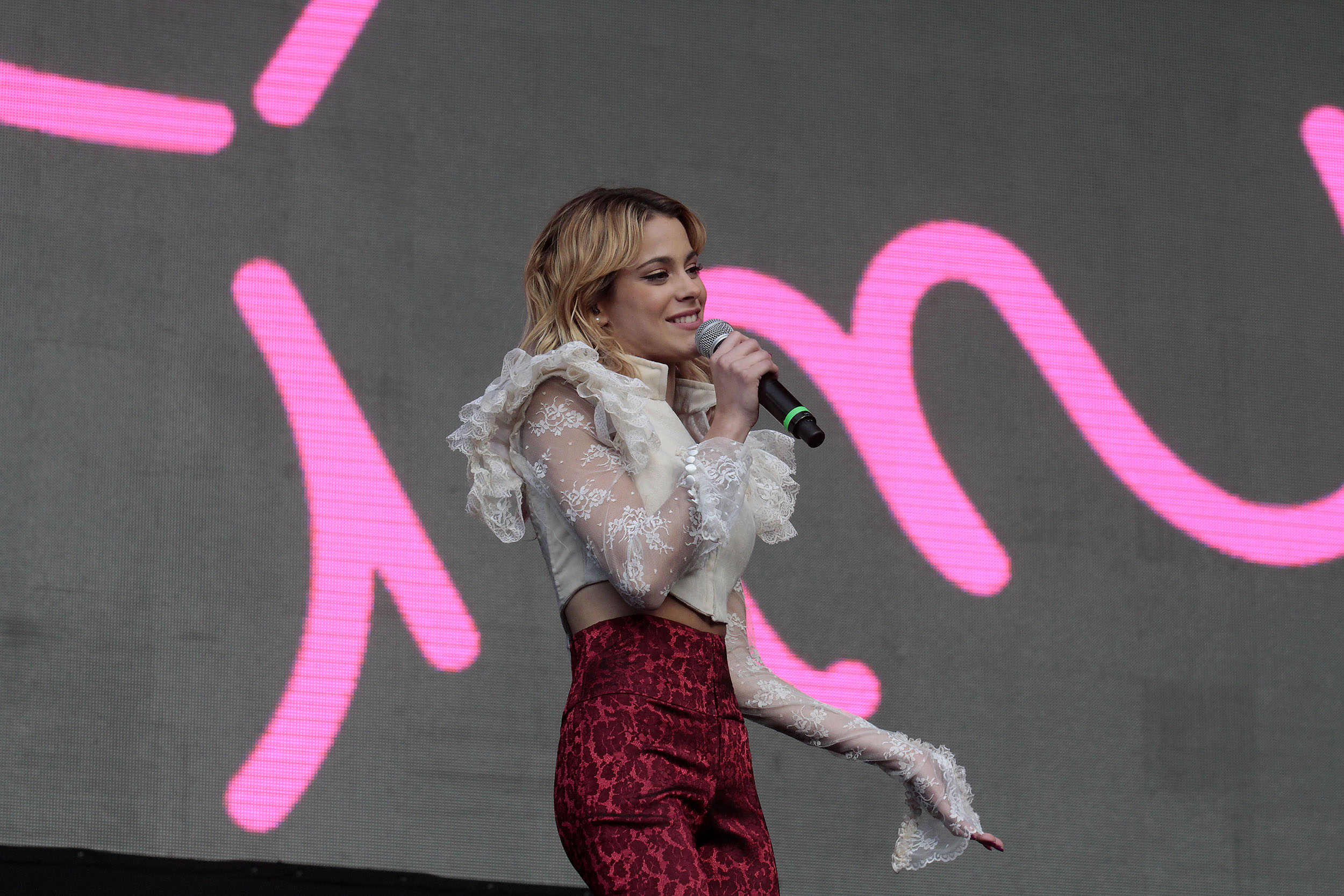 Martina Stoessel performing on May 2, 2014 during the free concert "Juntada Tinista" in Buenos Aires.